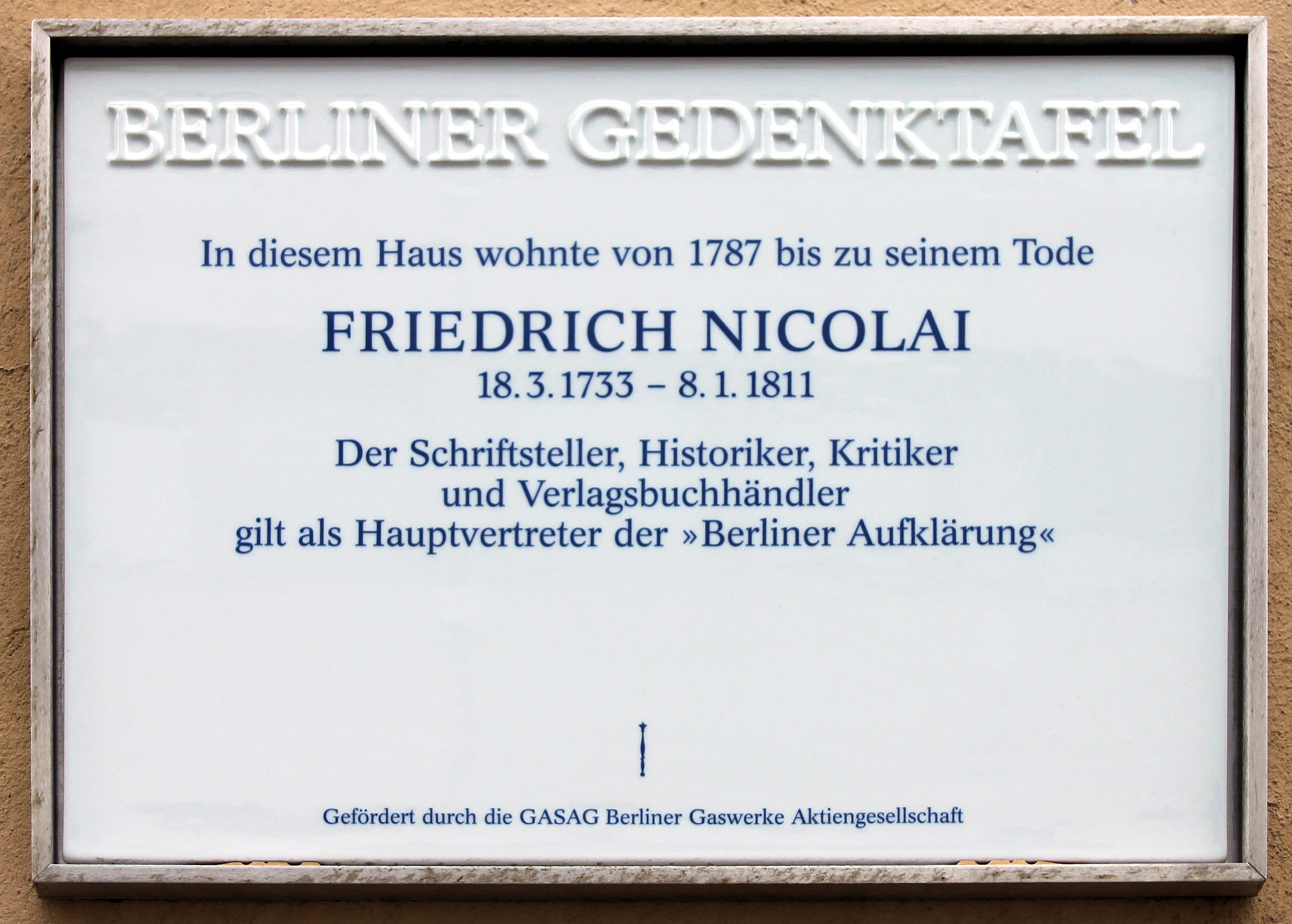 Berlin memorial plaque, Friedrich Nicolai, Brüderstraße 13, Berlin-Mitte, Germany Koordinate:52°30′51″N 13°24′10″E / 52.51417°N 13.40278°E